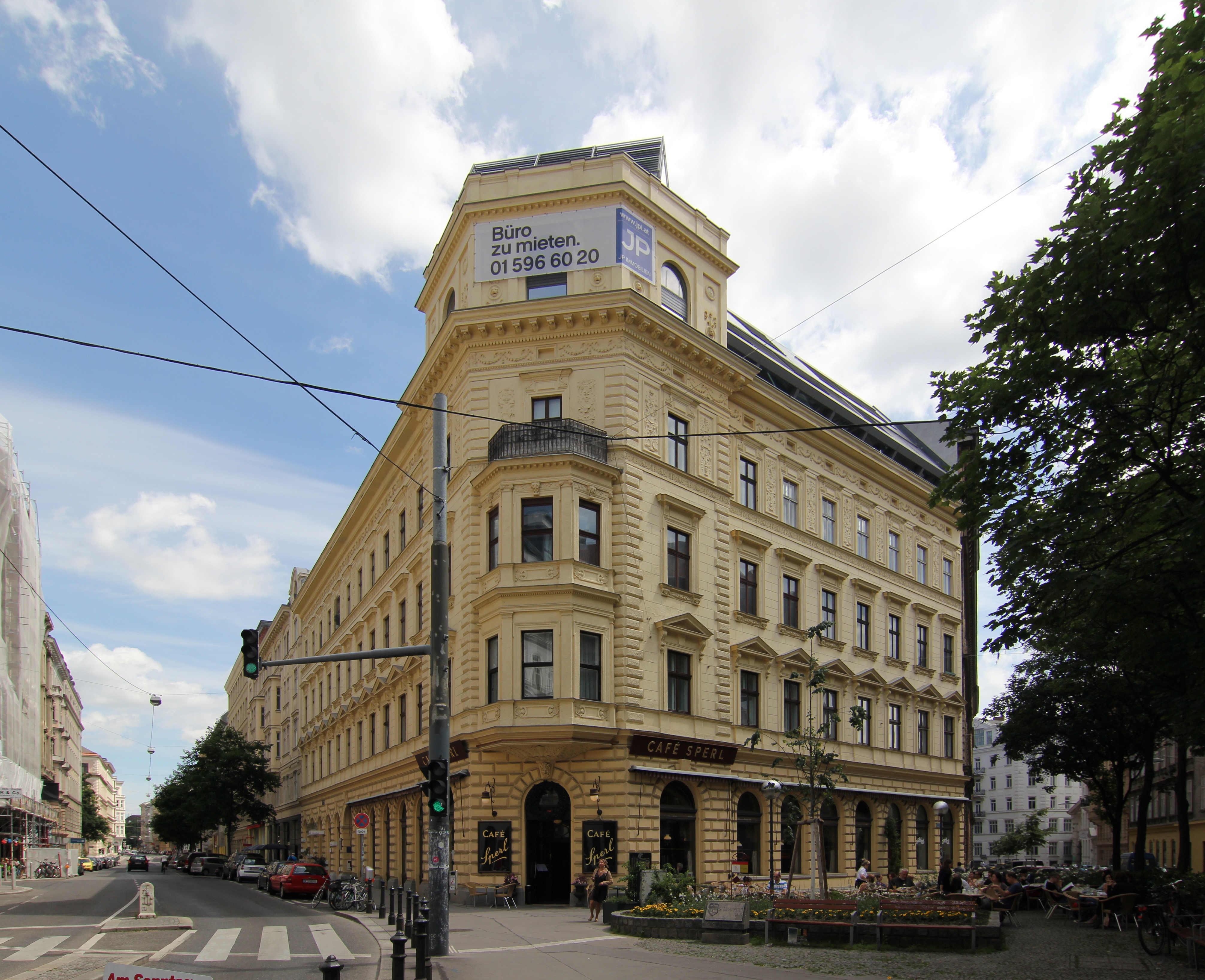 The Café Sperl in the Gumpendorfer Straße in Vienna.